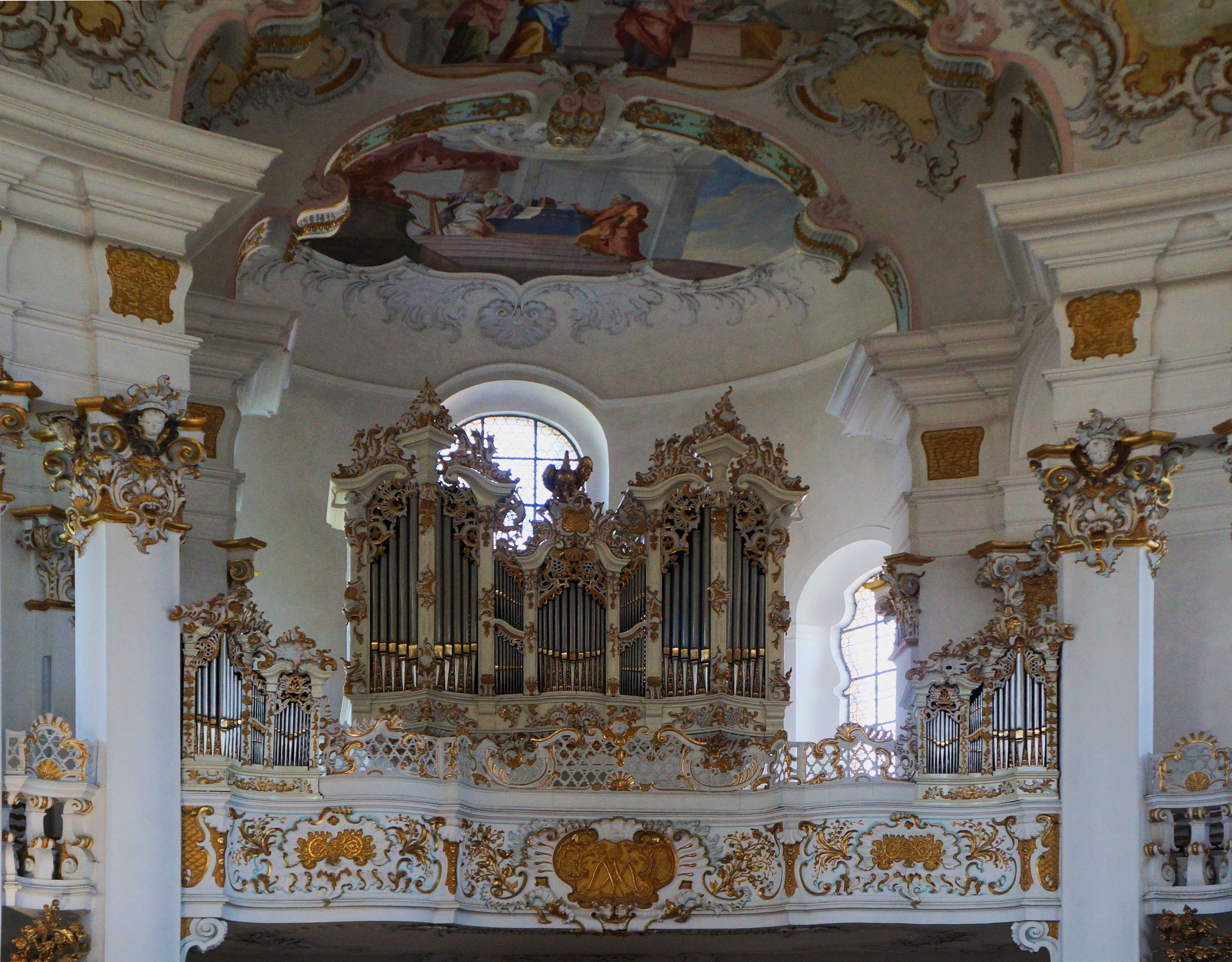 Wies church, Pfaffenwinkel, church bavaria, UNESCO, Germany